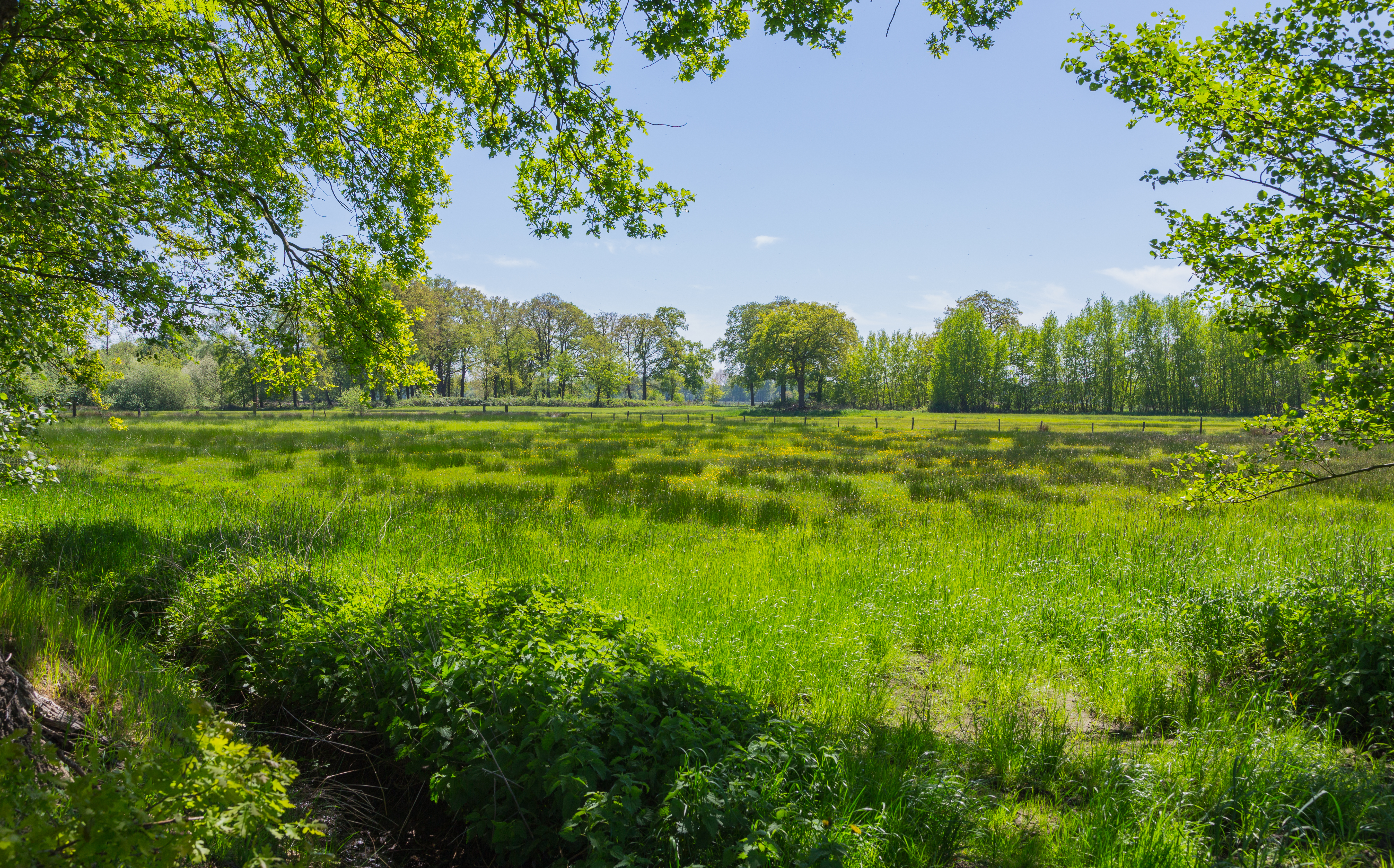 The nature reserve (Naturschutzgebiet) Meadows at Max Clemens Canal (Wiesen am Max-Clemens-Kanal) near Emsdetten, Kreis Steinfurt, North Rhine-Westphalia, Germany. It also belongs to the Site of Community Importance named Emsdetten Fen and Meadows at Max Clemens Canal (Emsdettener Venn und Wiesen am Max-Clemens-Kanal).